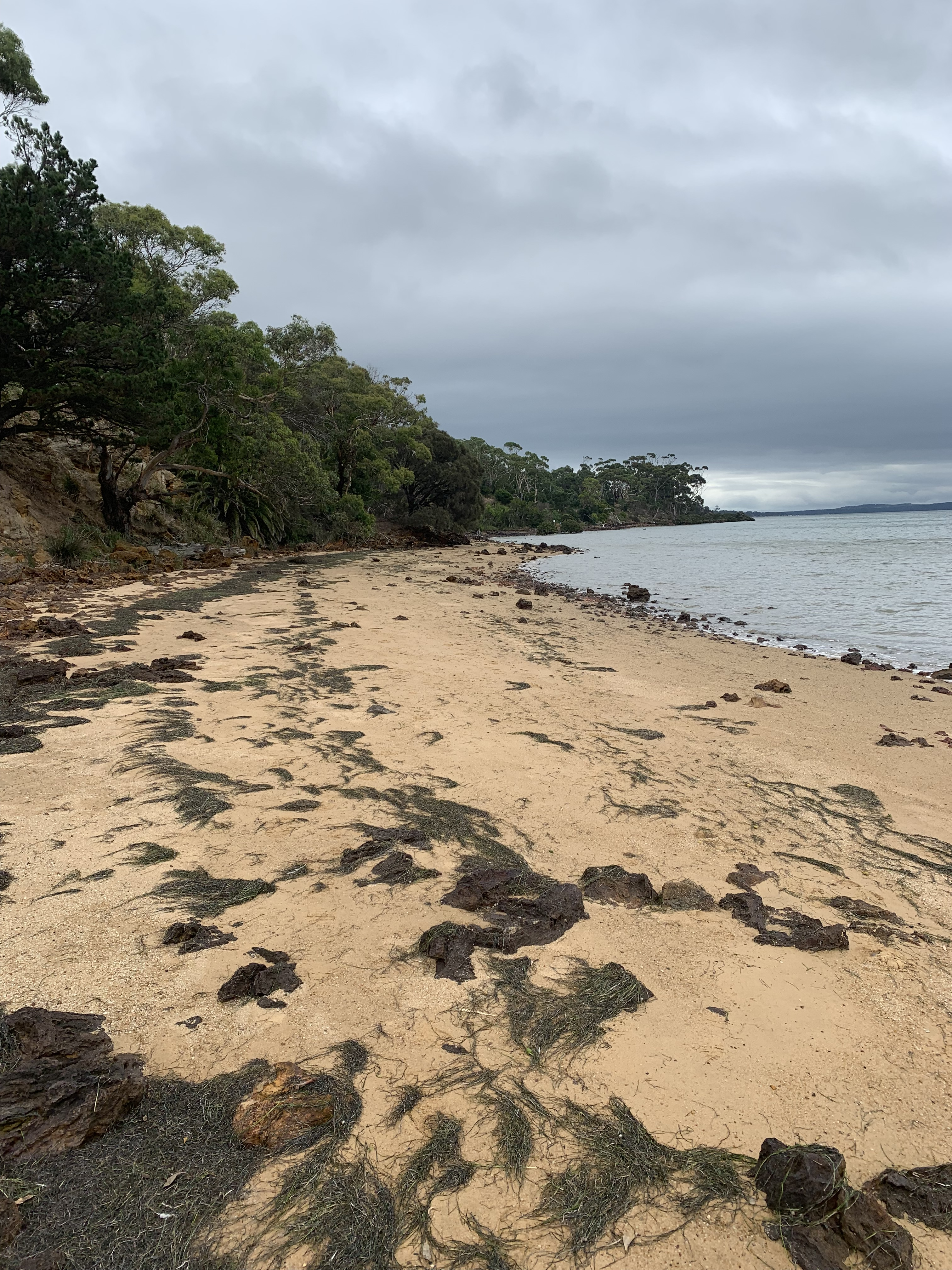 A view of a beach in Tenby Point, Victoria, Australia in January 2020.